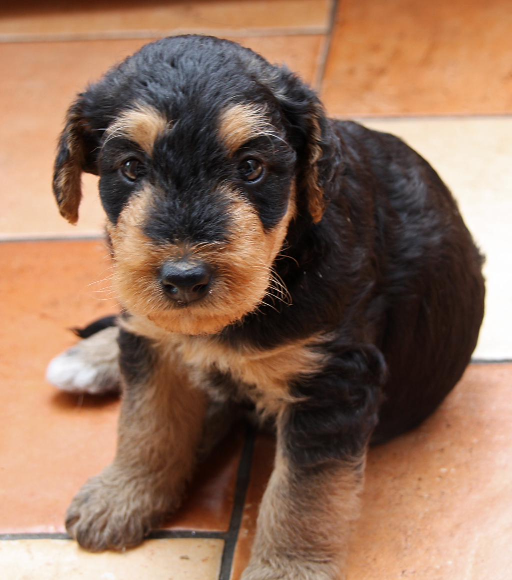 My friend's dog Phoebe the Airedale Terrier has had 8 pups. They are 4 weeks old now and doing well. They are all cuties of course!